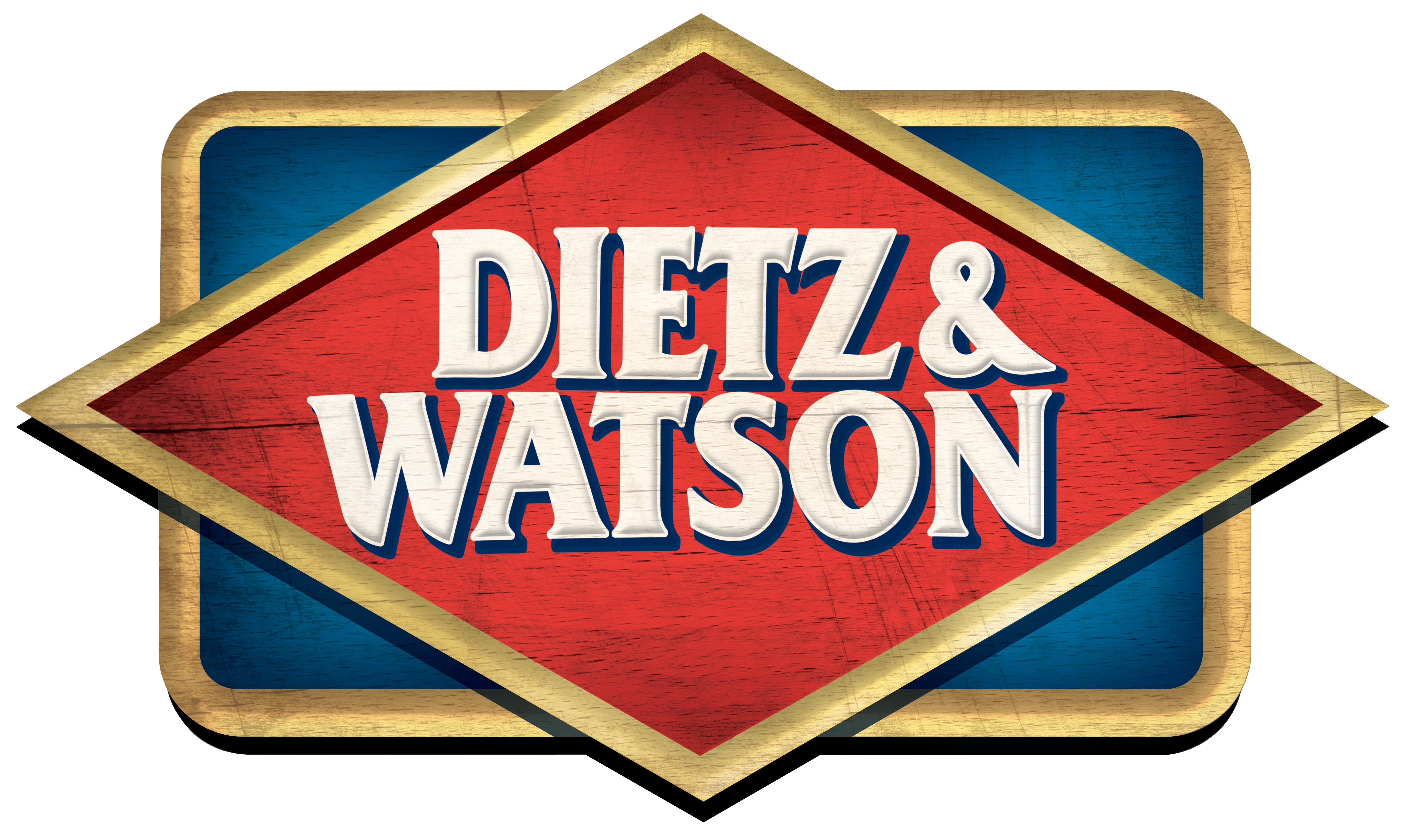 Dietz & Watson distressed logo